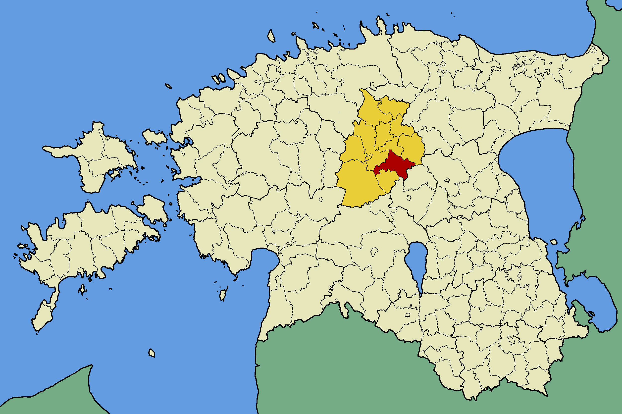 Map of Estonia with borders of municipalities (parishes). Järva county and Koigi municipality emphasized.